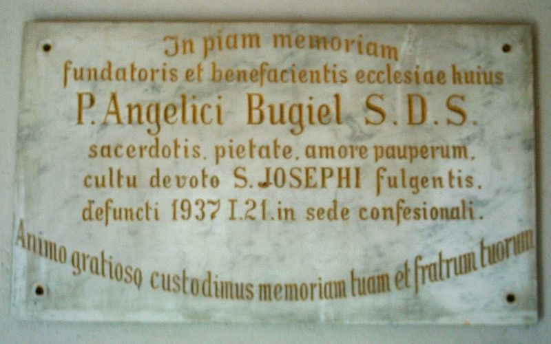 Catholic Church "St. Joseph" in Fratelia, Timisoara, Romania